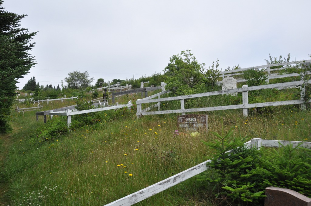 Immaculate Conception Cemetery Municipal Heritage Site, Cape Broyle, Newfoundland.